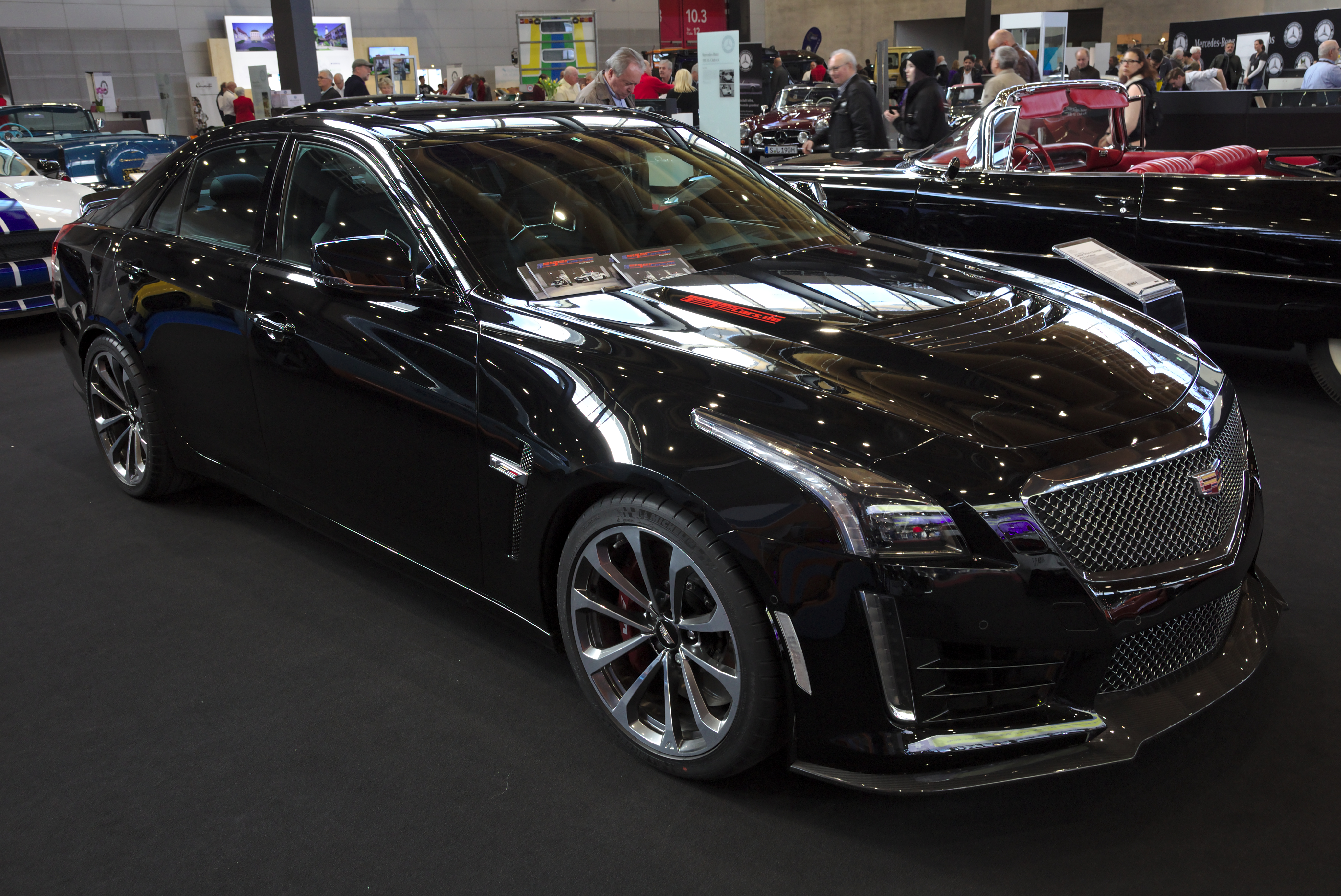 Cadillac CTS-V Final Edition at Retro Classics 2019